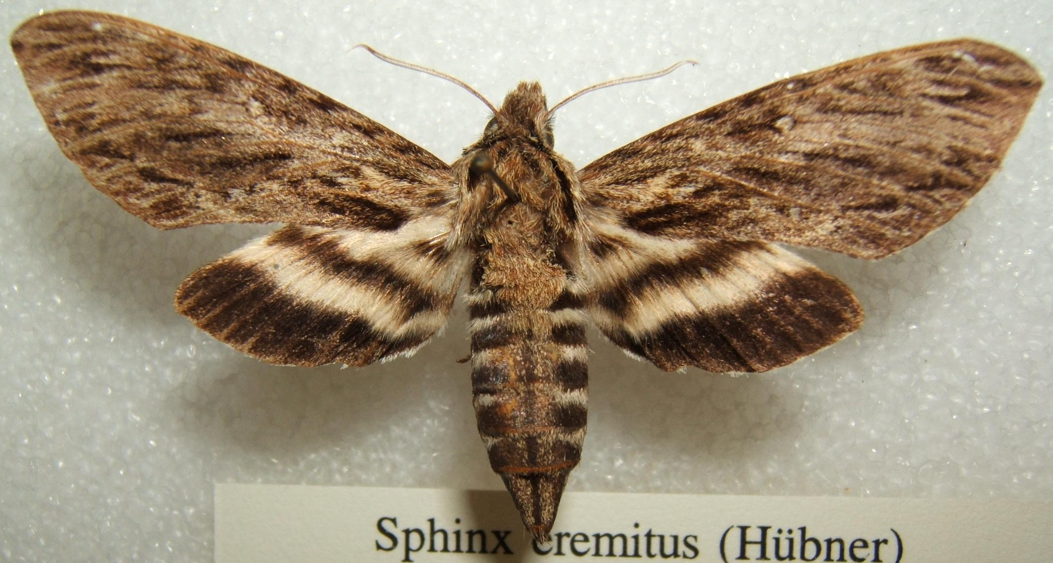 Sphinx eremitus adult taken by Shawn Hanrahan at the Texas A&M University Insect Collection in College Station, Texas.